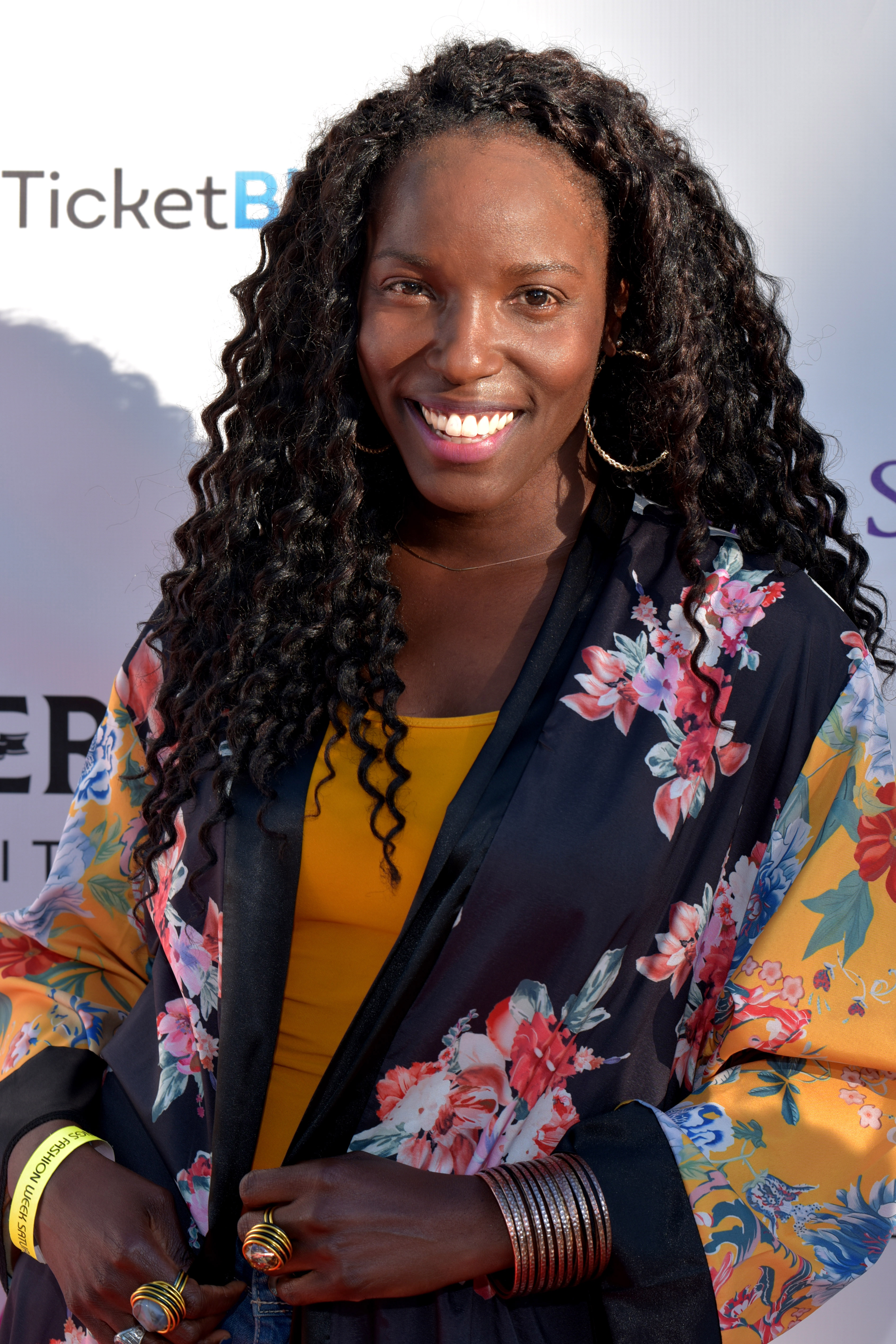 Janeshia Adams-Ginyard at the Palm Springs Fashion Show on April 13, 2019 - Photo by Glenn Francis of